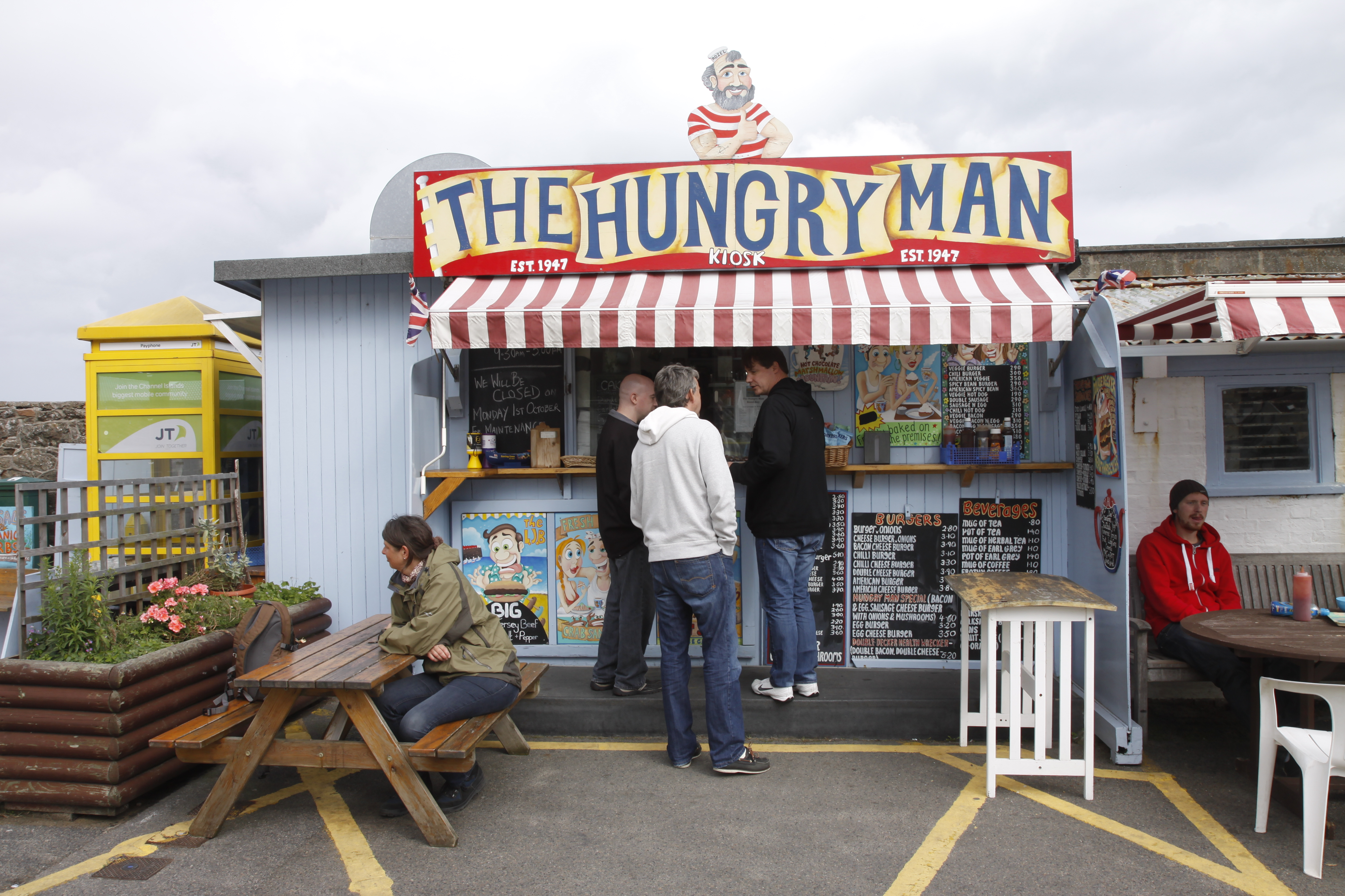 Hungry Man in the habor of Rozel (Jersey). Here you can get nearly everything in a bread roll what you can imagine